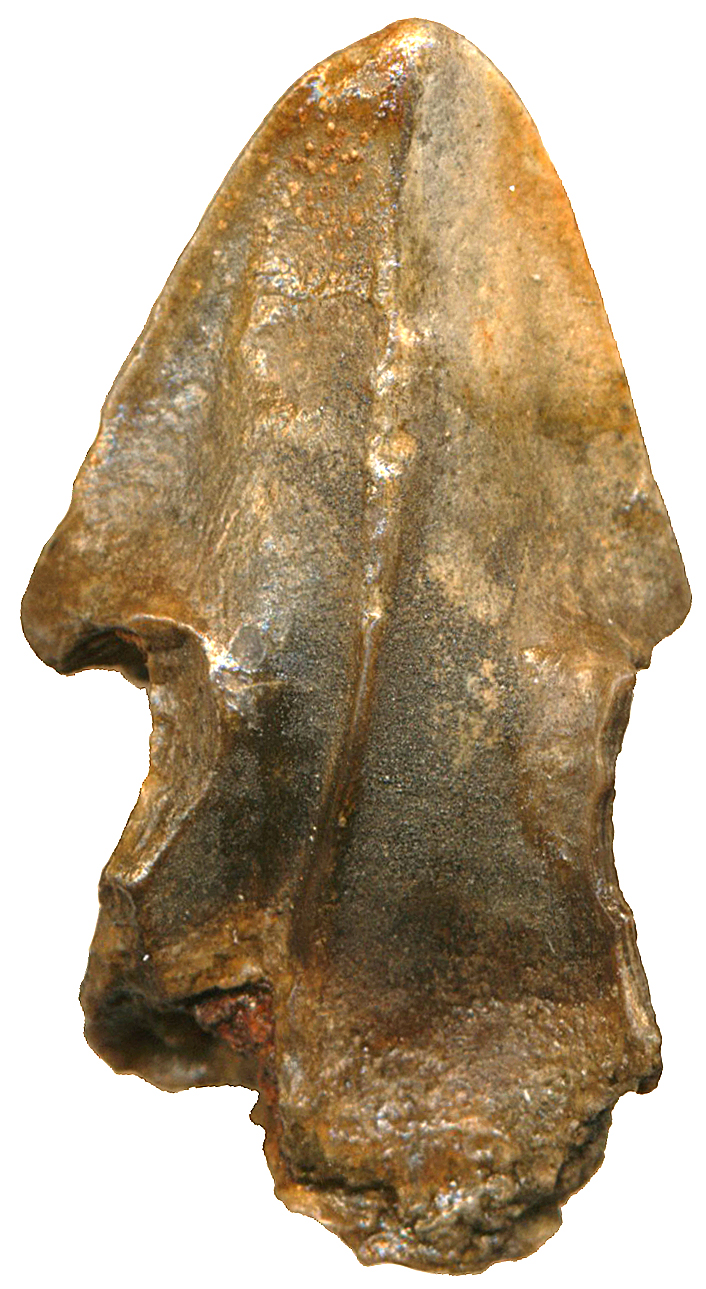 part of the jaw apparatus belonging to fossil nautiloids